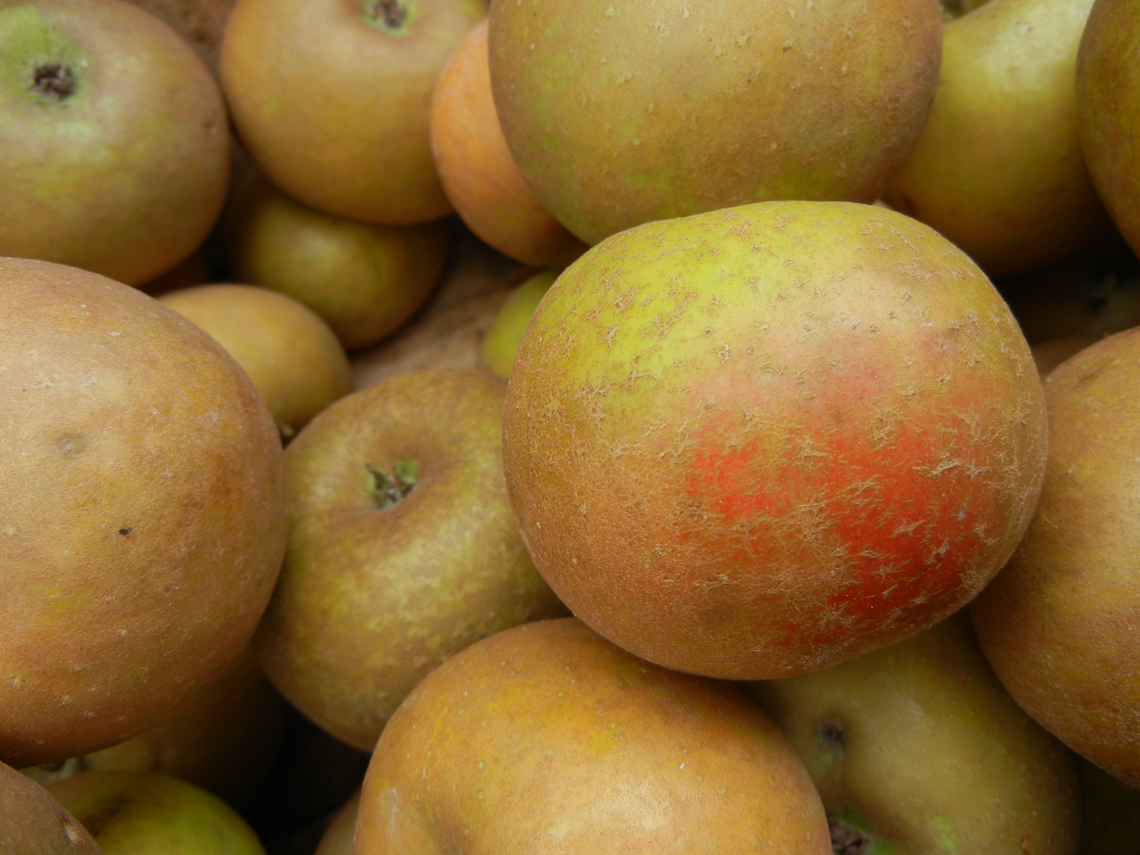 Heirloom apples available from Samascott Orchards in NY state. Related to Golden Russets, their skin is rough and papery but quite tender when eaten. The flesh is white and crisp, and has a strong almost winy flavor, more tart than sweet -- reminds me a bit of blackberries!